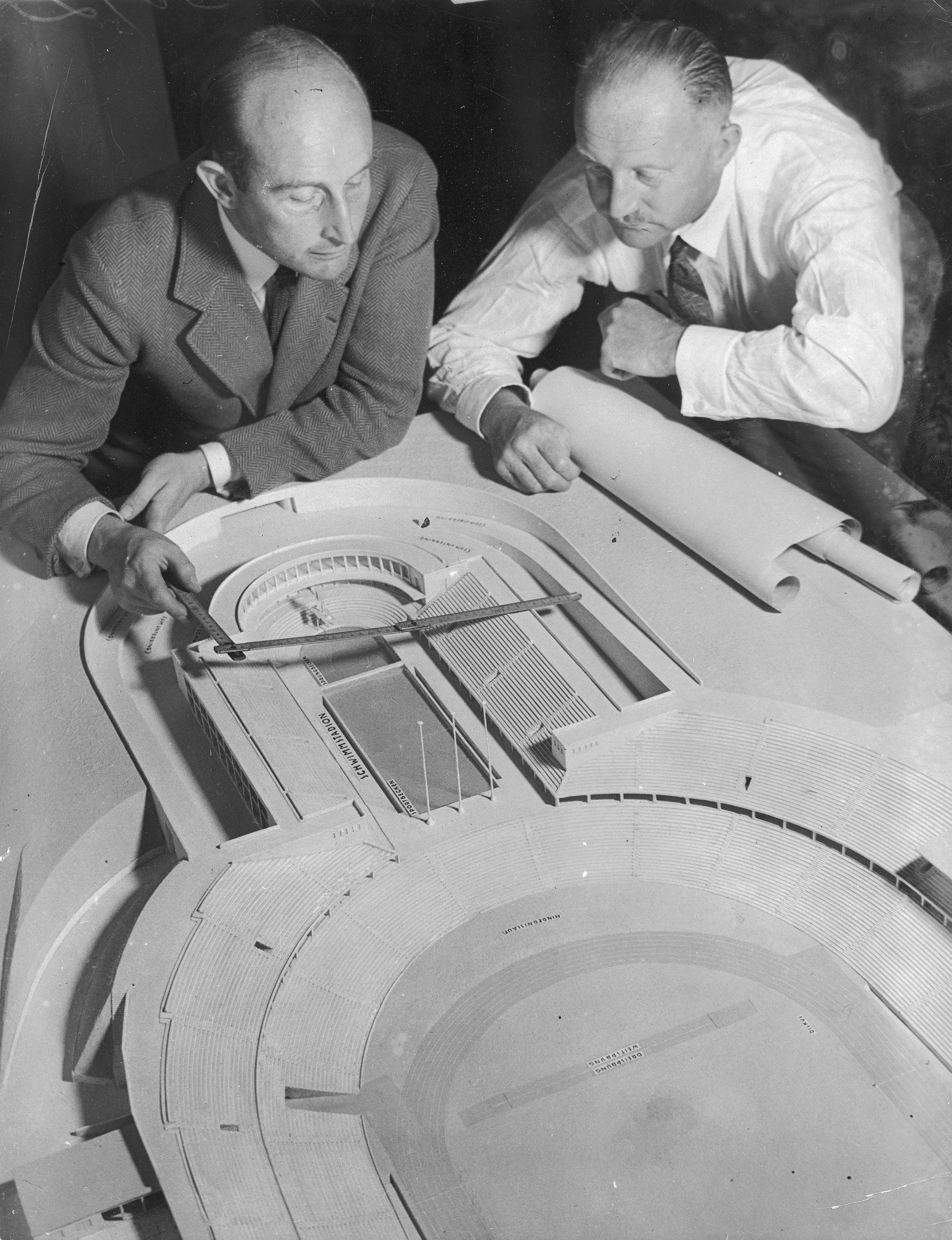 The Olympic Stadium project by Werner March (left).